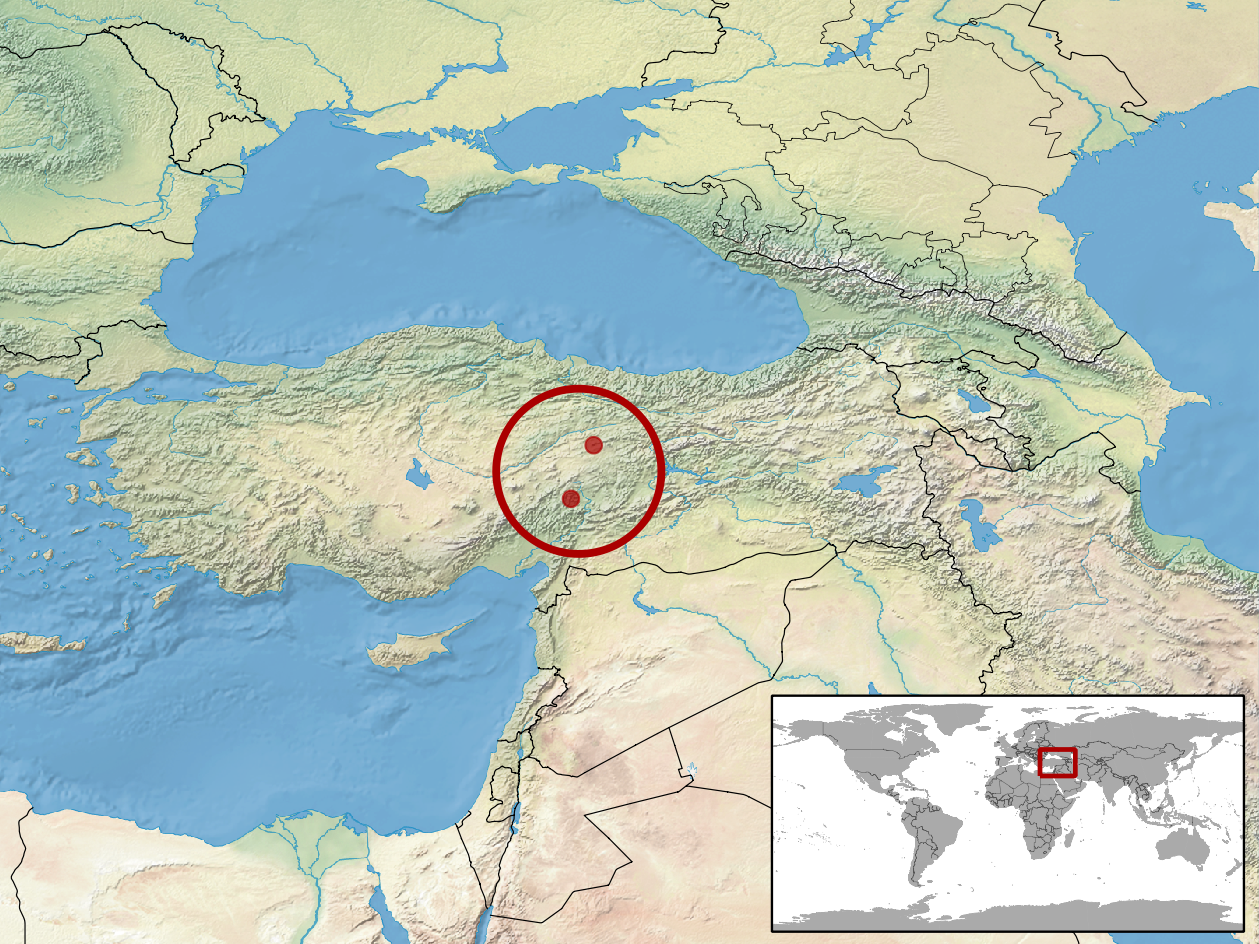 geographic distribution of Montivipera albizona (Native: Turkey)